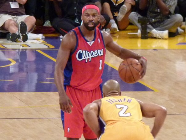 Baron Davis led the Clippers to a 102-91 win over the Lakers with 25 points, 10 assists, 5 rebounds, 2 steals and a block. Here, he is being defended by former GSW teammate, Derek Fisher.